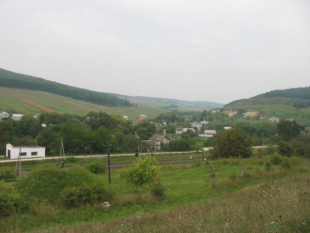 View over Pidvysoke, Berezhany district, Ternopilska oblast, western Ukraine.